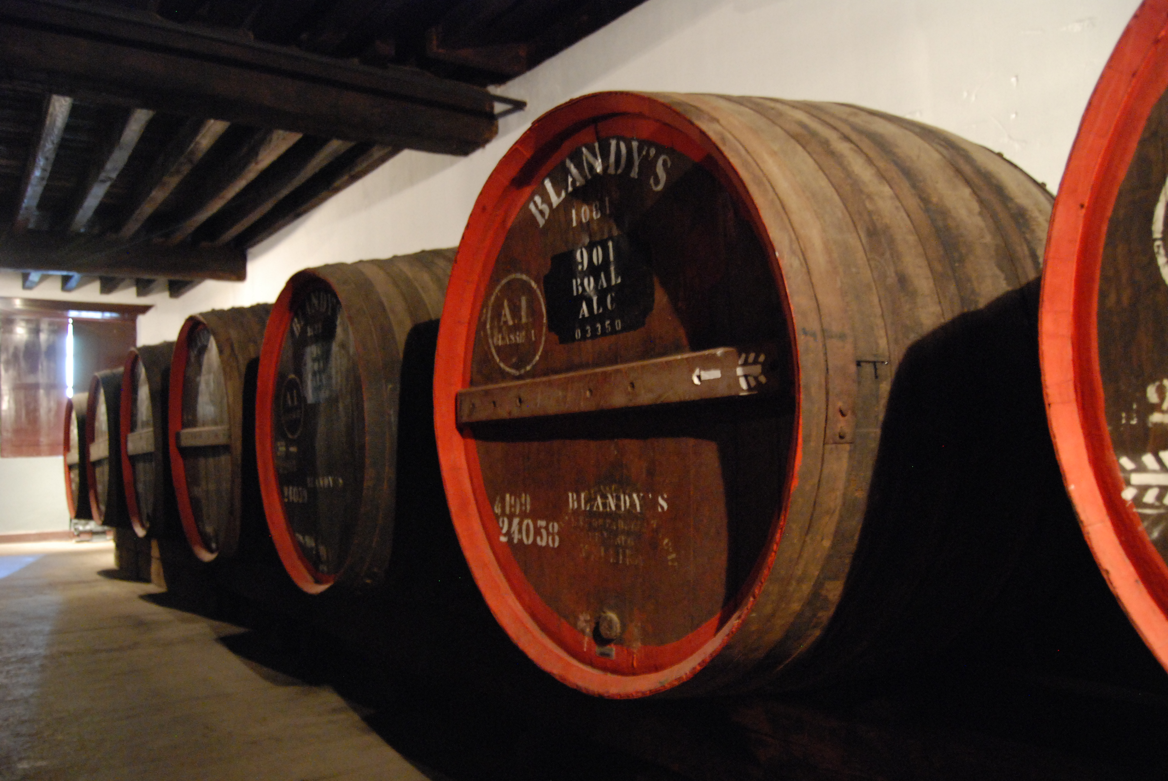 Old Blandy's Wine Lodge, Funchal, Maderia, Portugal The barrel in the center contains Bual